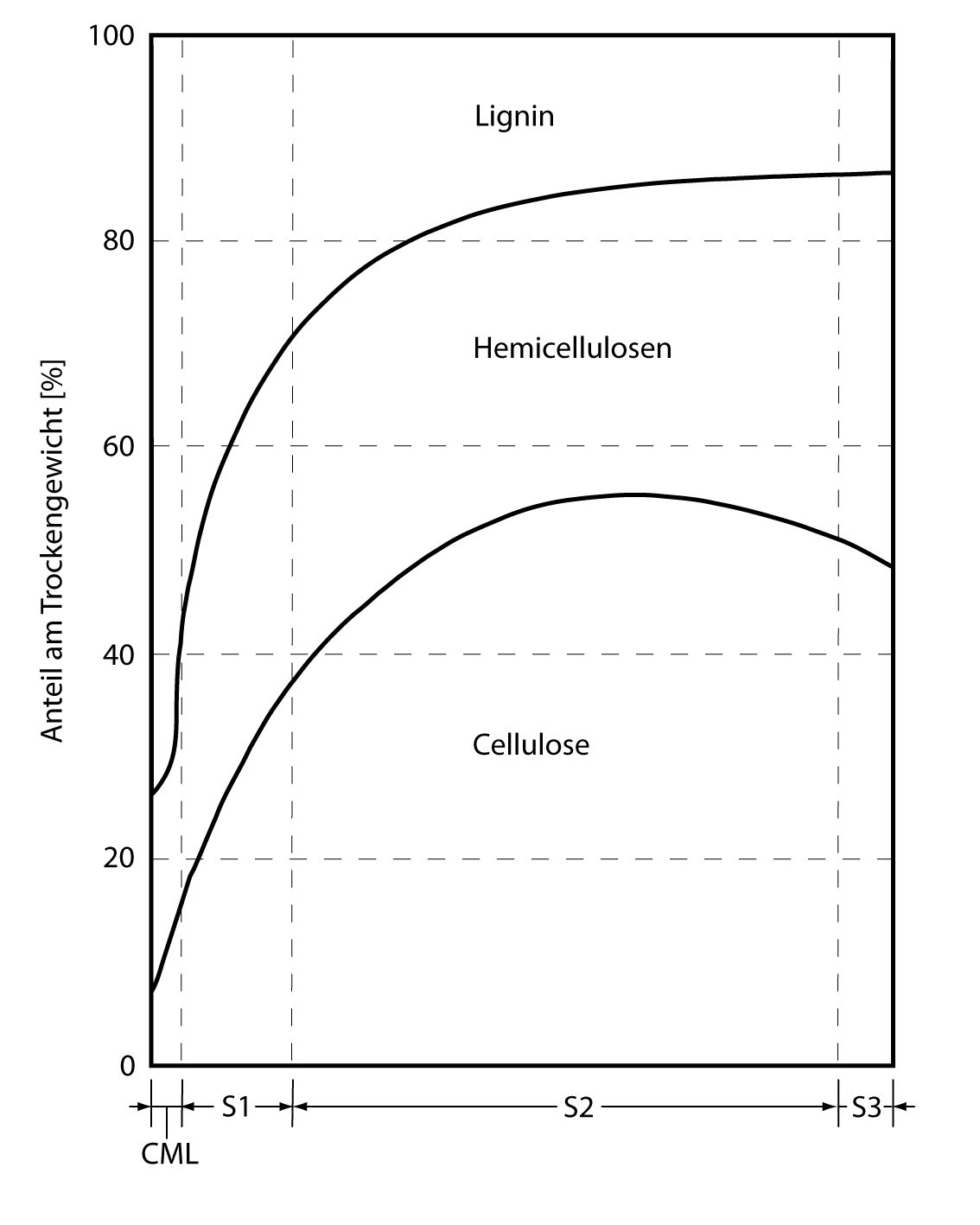 Distribution of the principal chemical constituents within the various layers of the cell wall in conifers (Panshin & de Zeeuw, 1980, mod.)